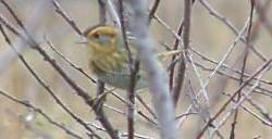 Ammodramus nelsoni. Nelson's Sharp-tailed Sparrow from USDA bruant de Nelson